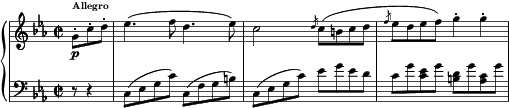 Incipit to Piano Sonata No. 8, Op. 13, third movement, by Ludwig van Beethoven